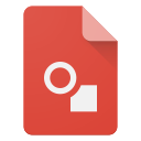 Logo for Google Drawings